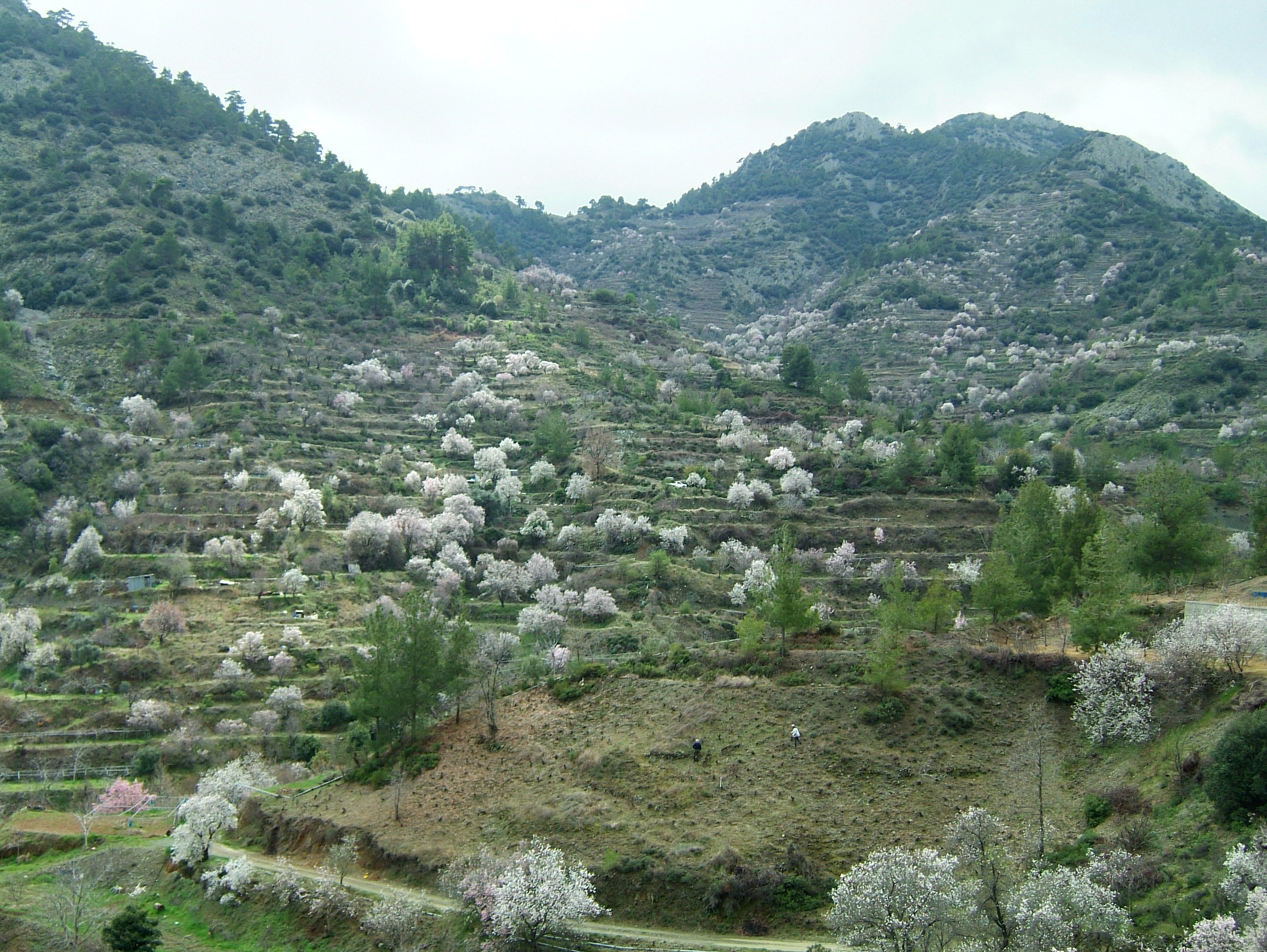 Almond trees at Troodos mountain, in Cyprus